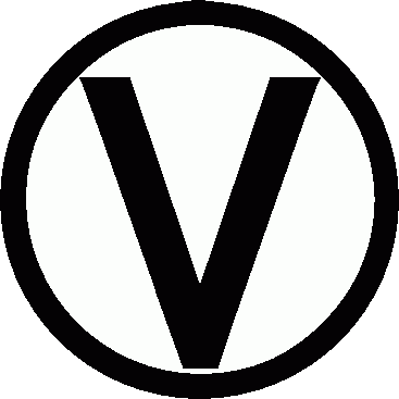 Symbol of the vegetarian movement.